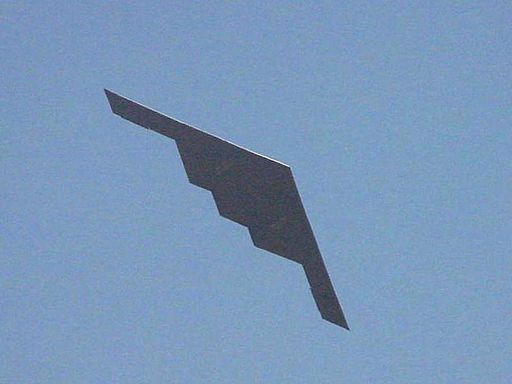 Image title: Airplanes stealth bomber Image from Public domain images website